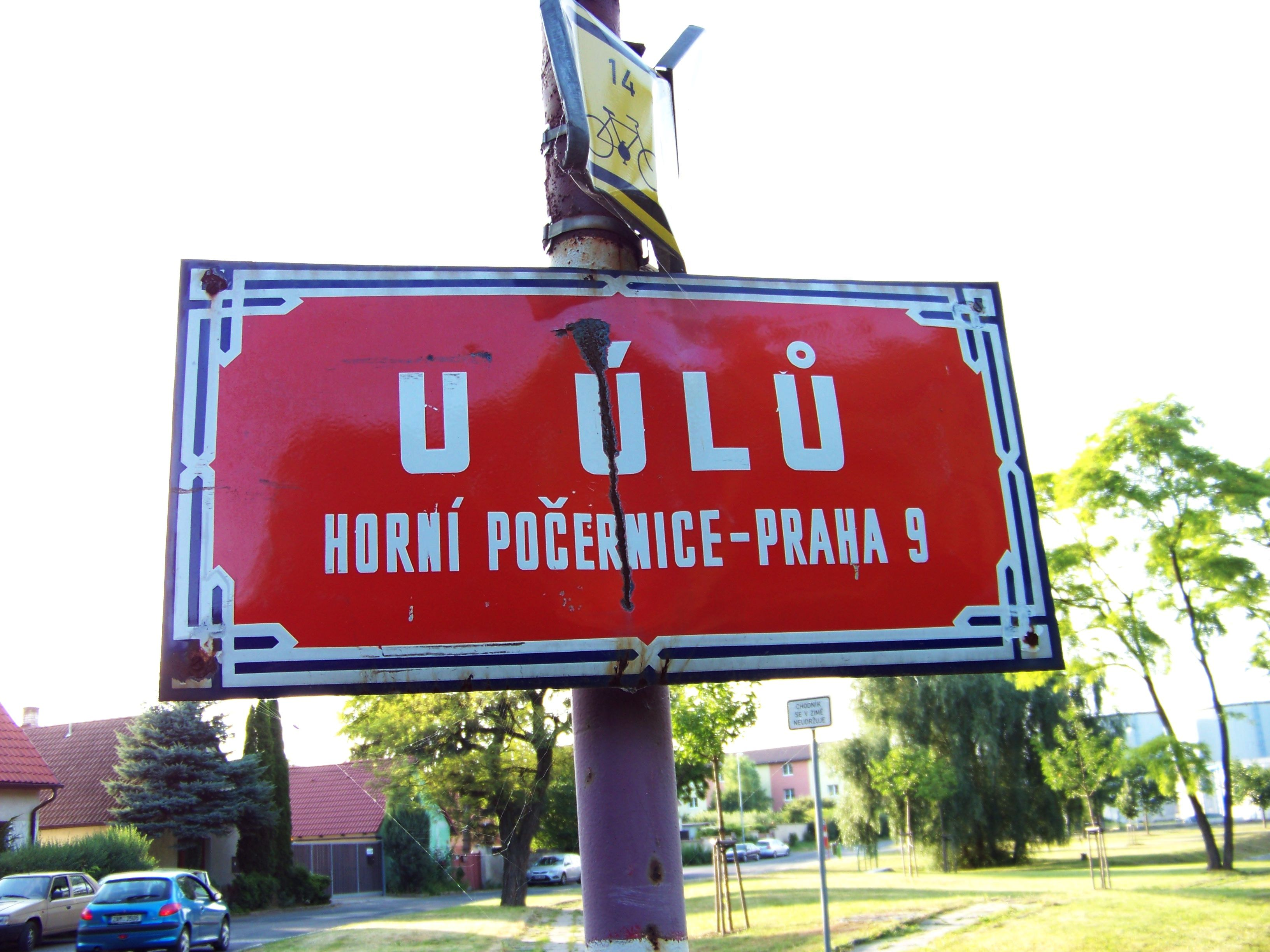 Prague-Horní Počernice. Čertousy, U úlů street, a street sign. - OpenStreetMap(Info)